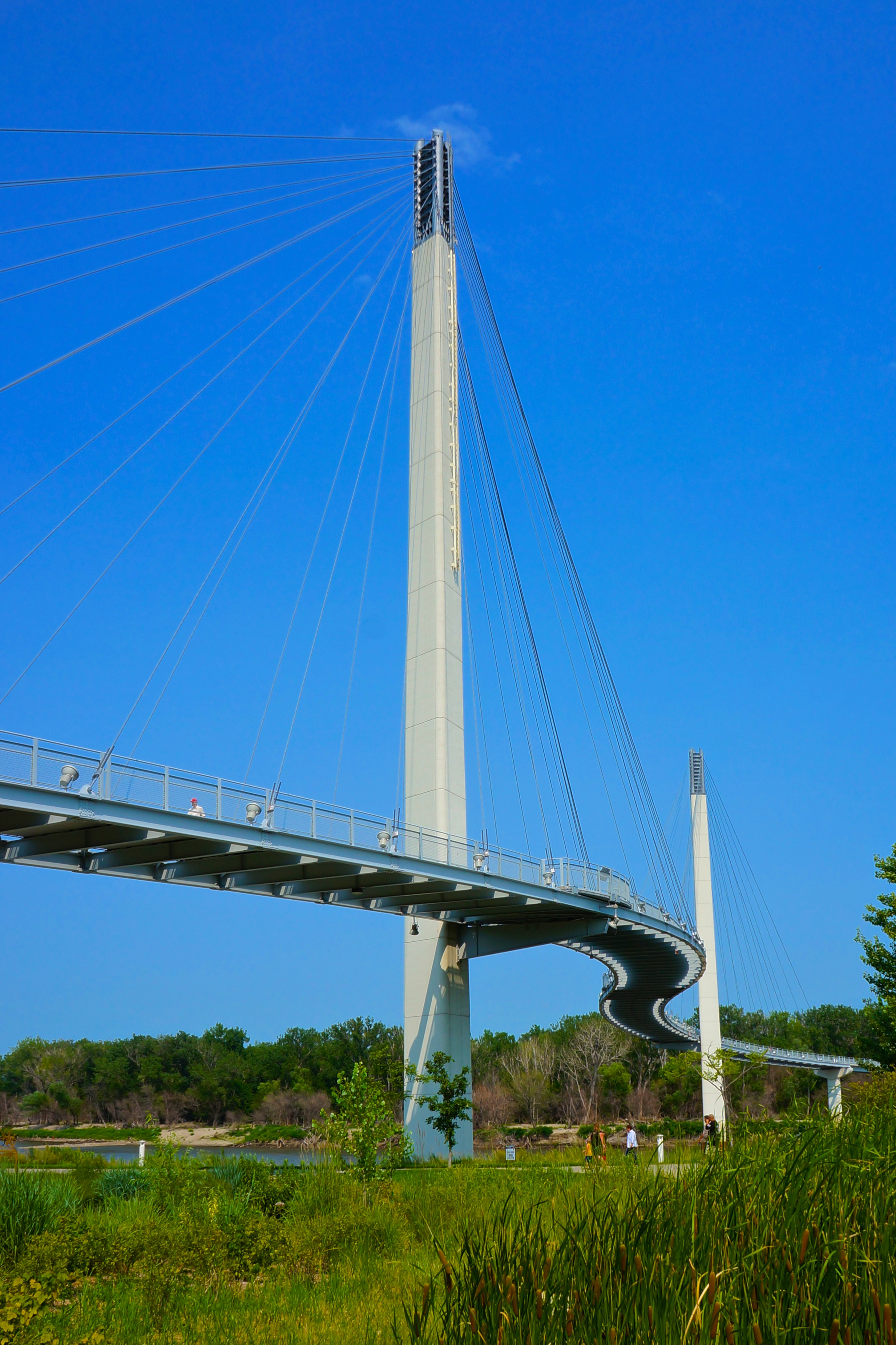 Photo of the Bob Kerrey Pedestrian Bridge